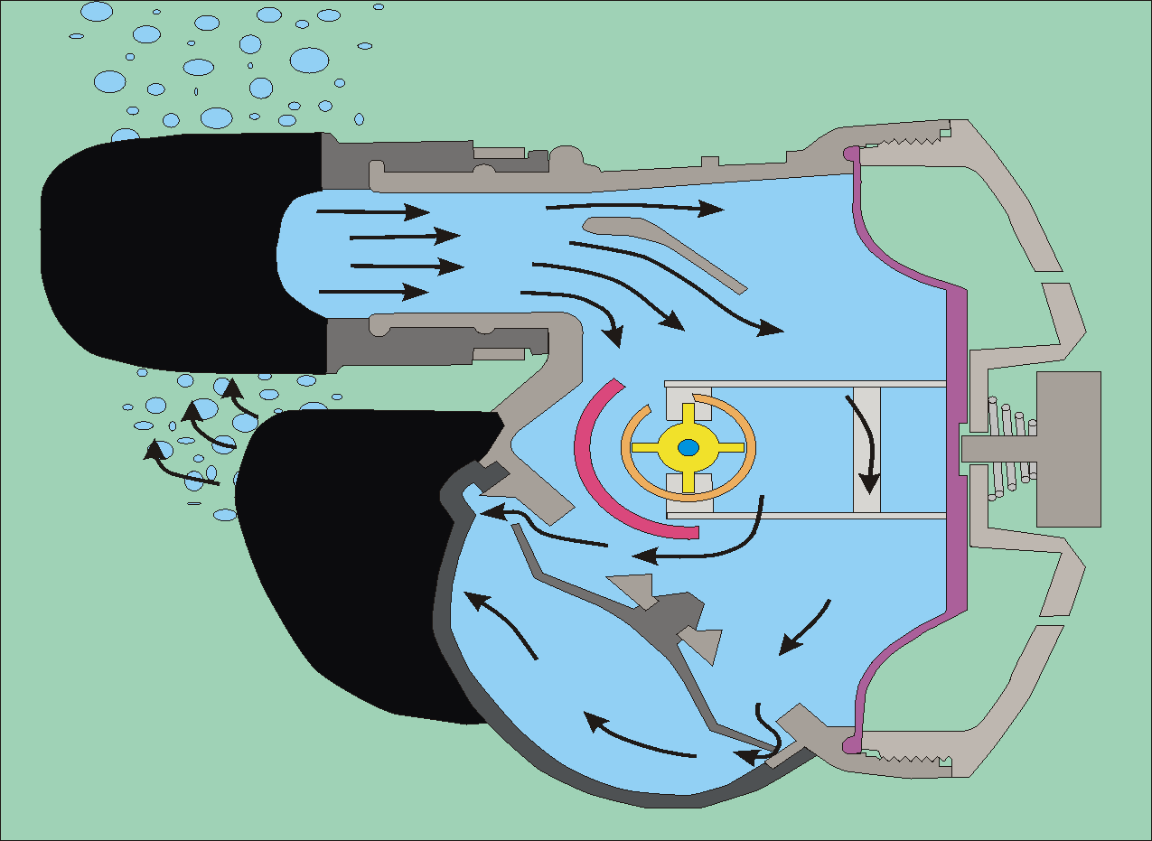 Schematic section through 2nd stage SCUBA regulator showing exhaust function